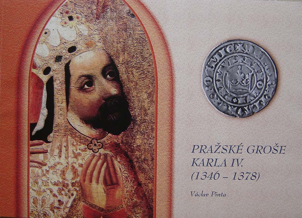 Jacket of the Book by Václav Pinta Prague Pennies 1346-1378